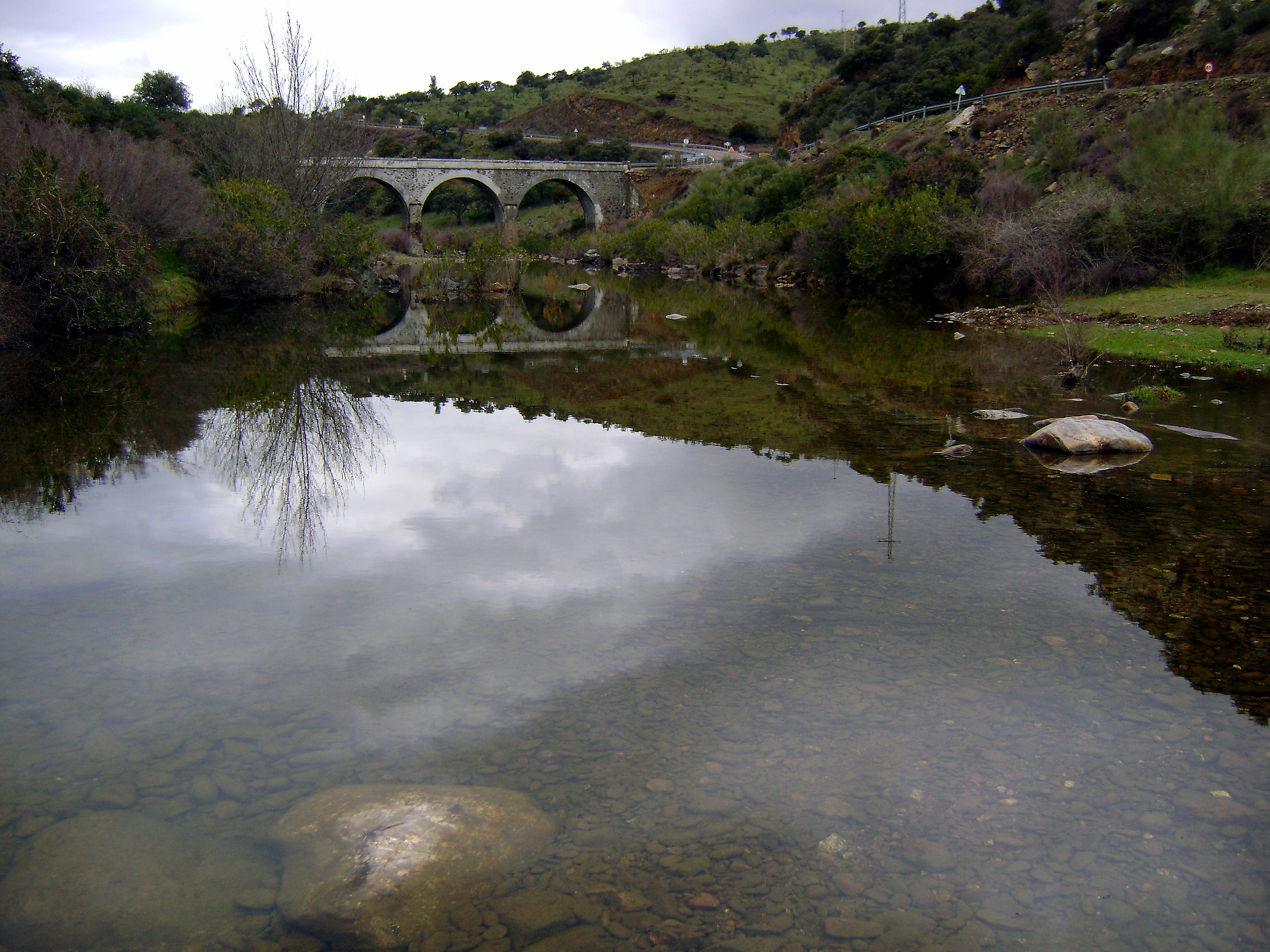 Bridge over Montoro river, río Montoro, Valle de Alcudia Spain